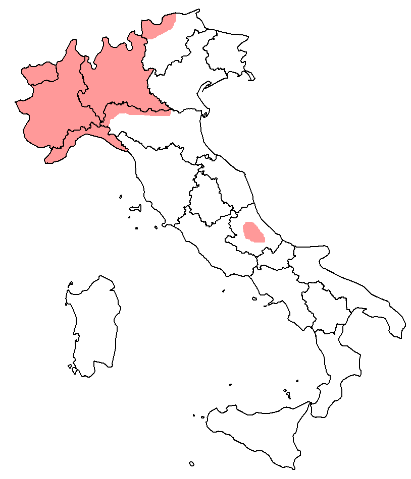 Area of paltalization of latin Ū in /y/.